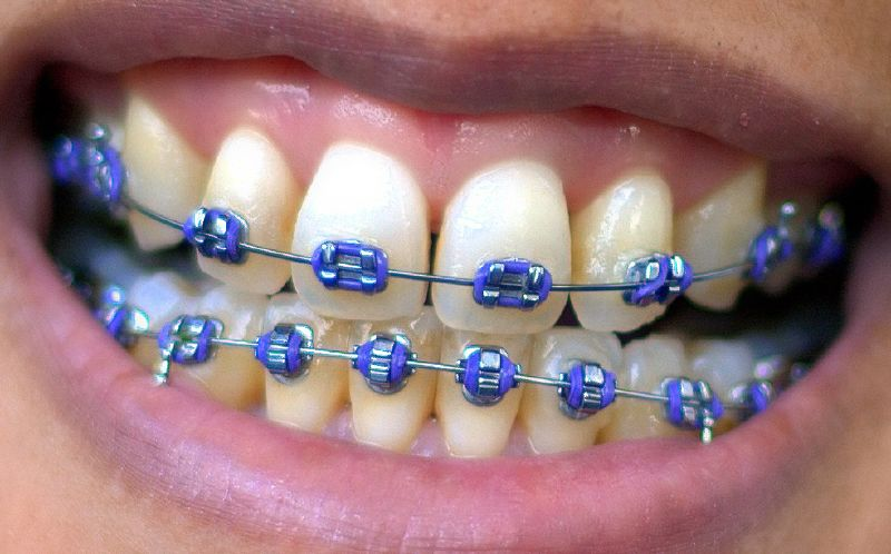 A female mouth with braces.